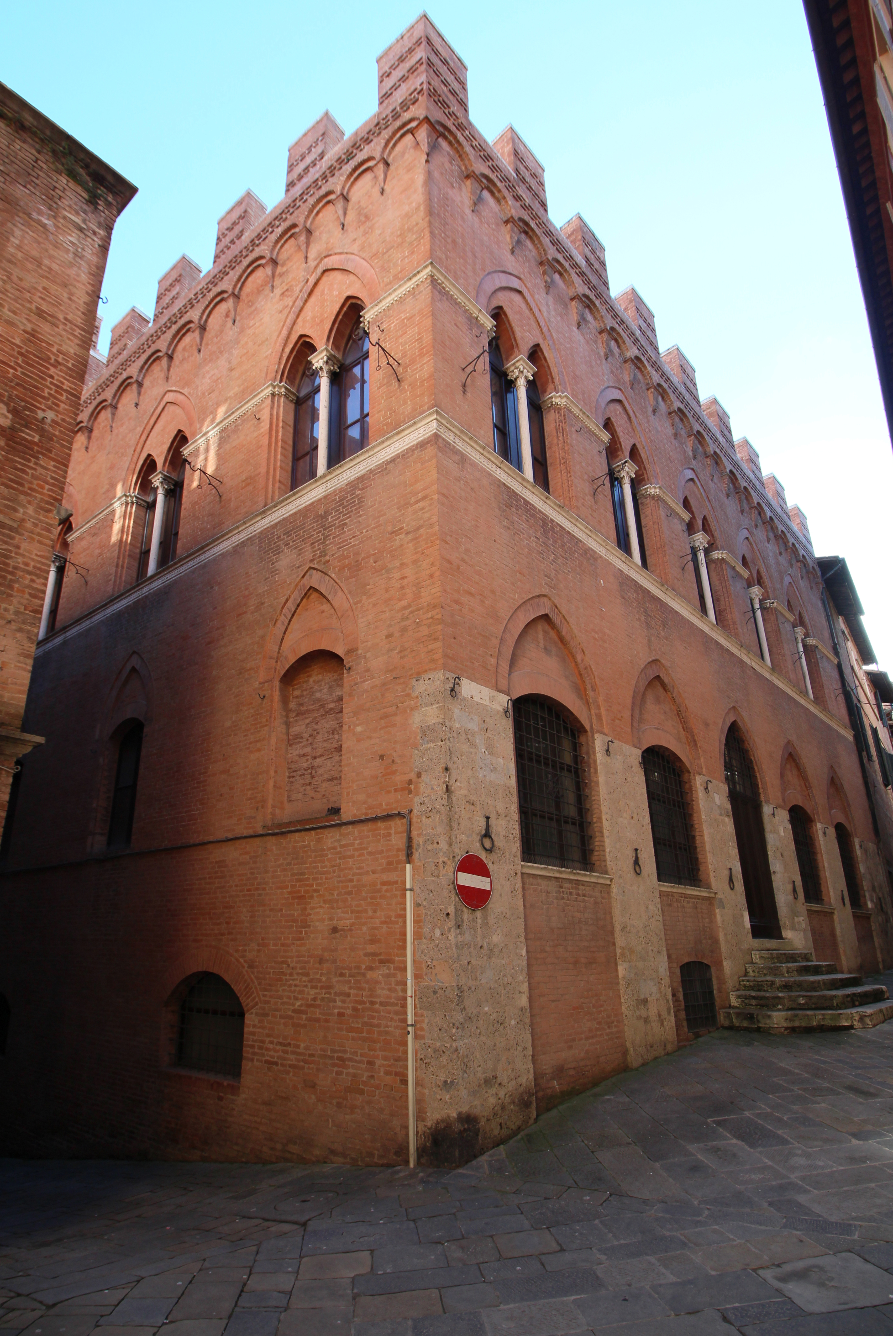 Palazzo Marsili, Via di Città / Via del Castoro / Via del Poggio, Terzo di Città, Siena, Province of Siena, Tuscany, Italy